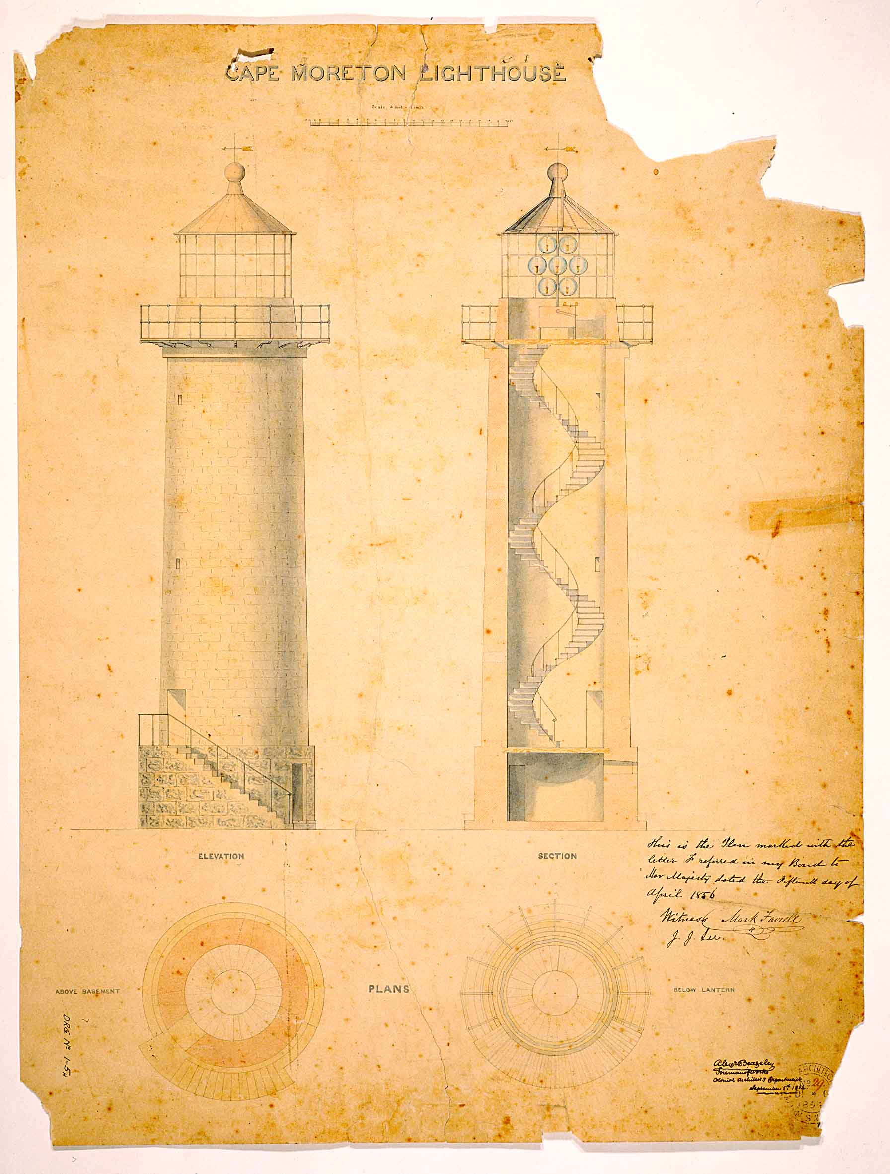 Cape Moreton Lighthouse [Alex Beazeley Foreman of Works NSW Colonial Architect's Office]